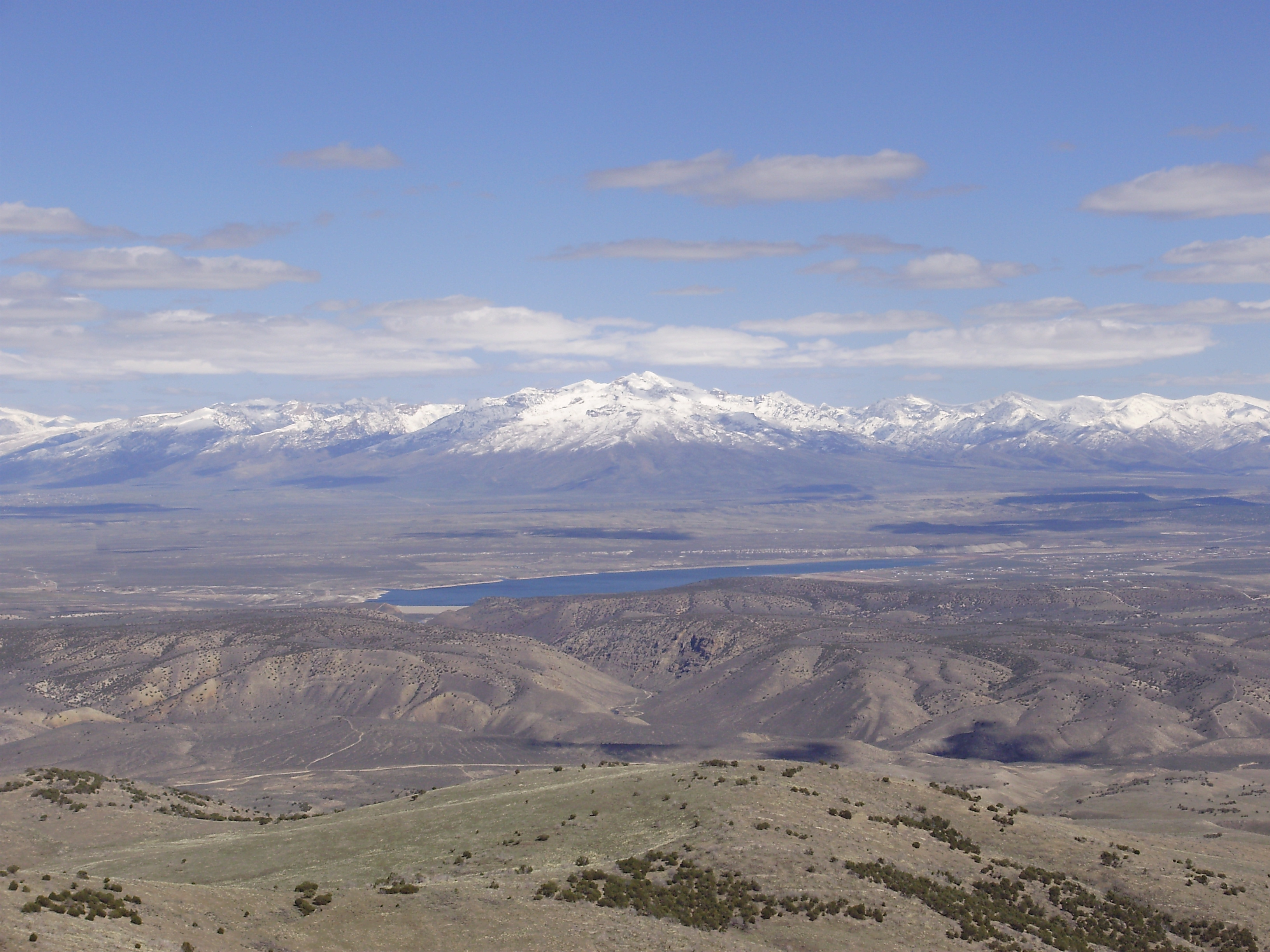 View east from Grindstone Mountain, Nevada towards Ruby Dome